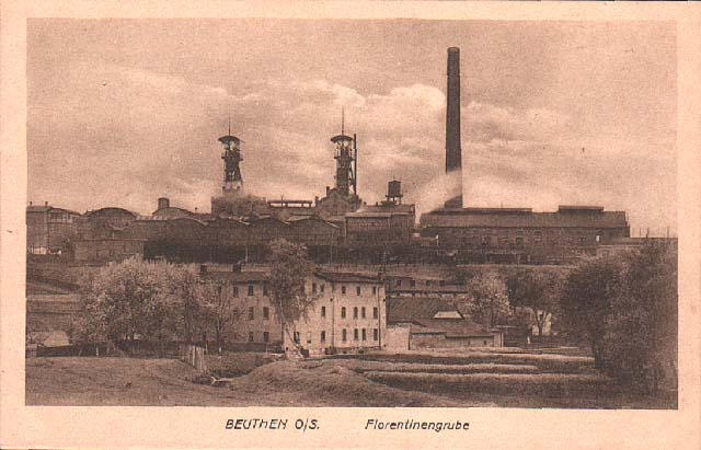 Coal mine Florentine, German postcard, ca. 1920.